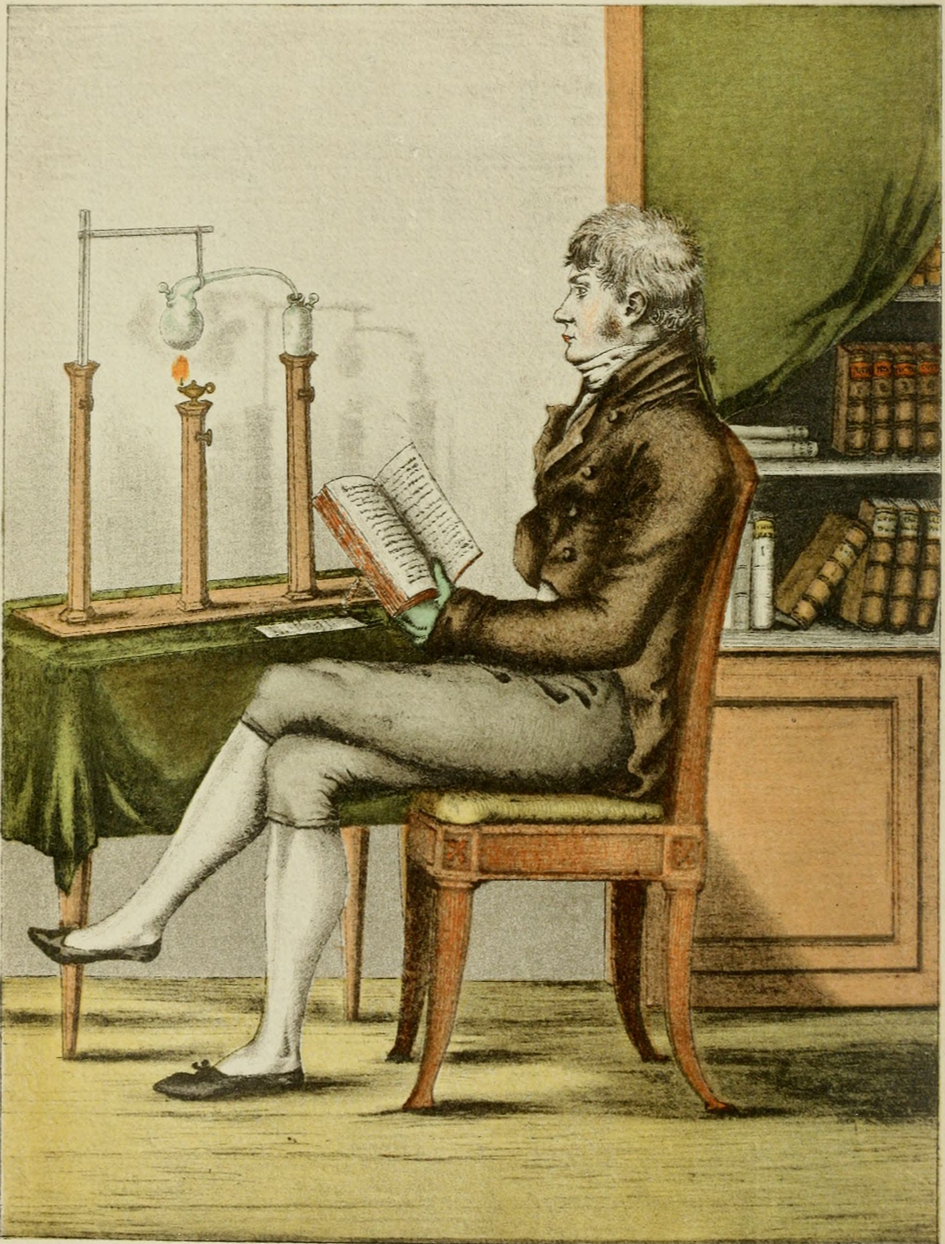 Swedish chemist Jöns Jacob Berzelius, sitting. Unknown artist. Book printed 1903, but portrait apparently painted while Berzelius was young.